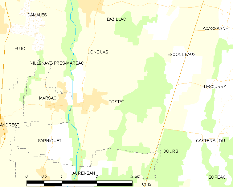 Map of French municipality